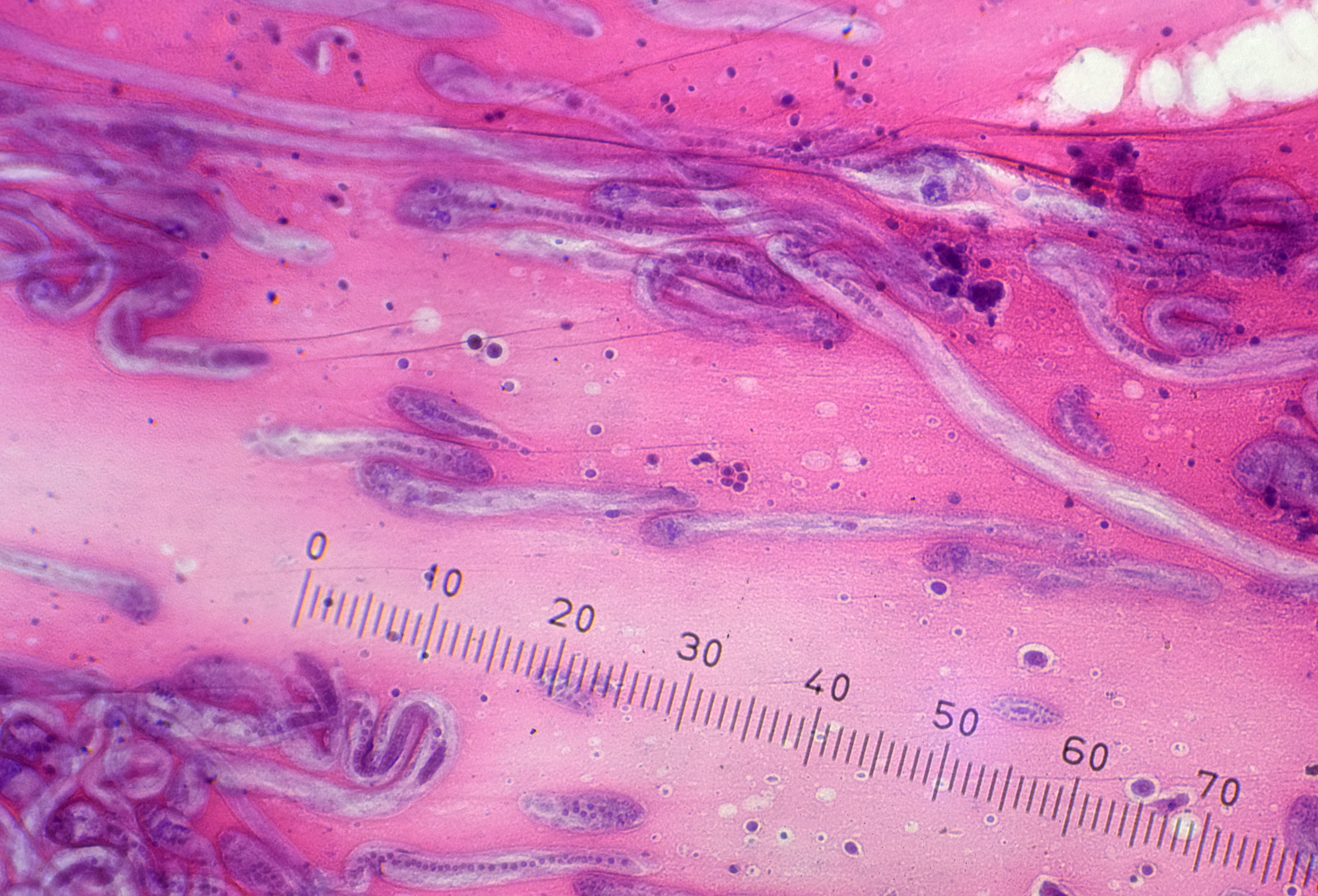 Dicyema sp., undescribed dicyemid from Sepia (Doratosepion) tenuipes caught in Kumanonada-sea. Fixed by Bouin's solution. Stained by Hematoxylin and Eosin.